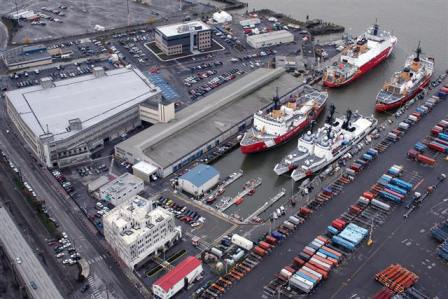 An aerial view of Pier 36